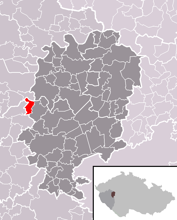 Location of Smědčice municipality within Rokycany District and within identical administrative area of Rokycany as a Municipality with Extended Competence.